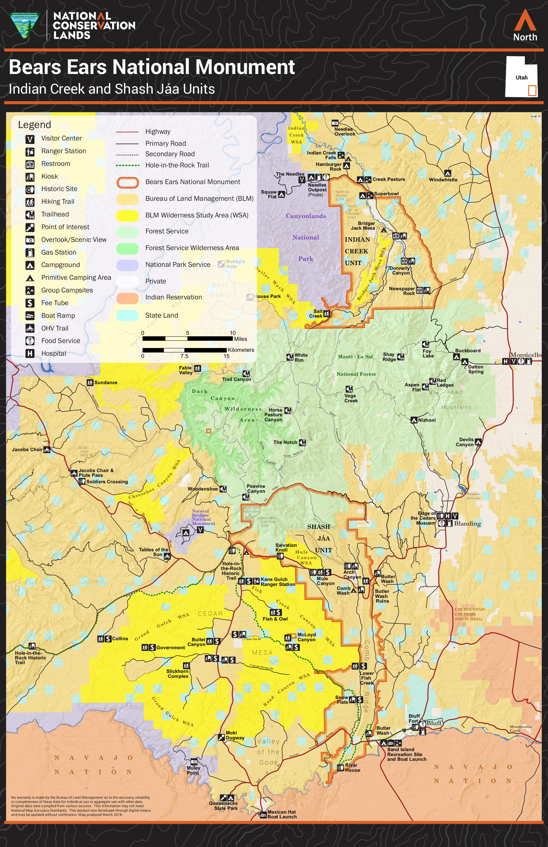 Bureau of Land Management (BLM) map of Bears Ears National Monument, Utah, United States with reduced boundaries indicated by the two units named Indian Creek and Shash Jáa (Bears Ears). The PDF file was converted to an uncompressed PNG file using GIMP.